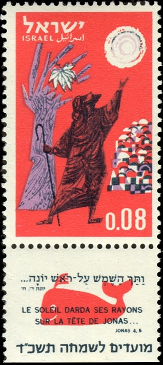 Jonah stamp